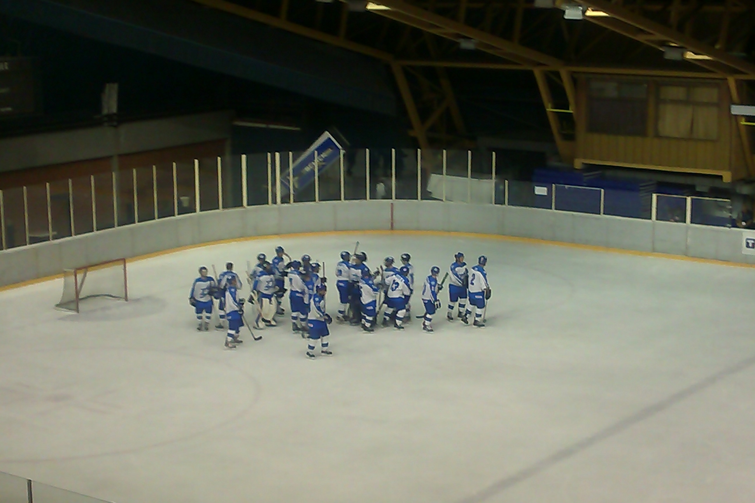 2014 IIHF World Championship Division II Serbia - Israel 10:6 in Belgrade 10. april 2014Српски (ћирилица): Светско првенство у хокеју на леду 2014 — Дивизија II, Србија - Израел 10:6 у Београду 10. априла 2014